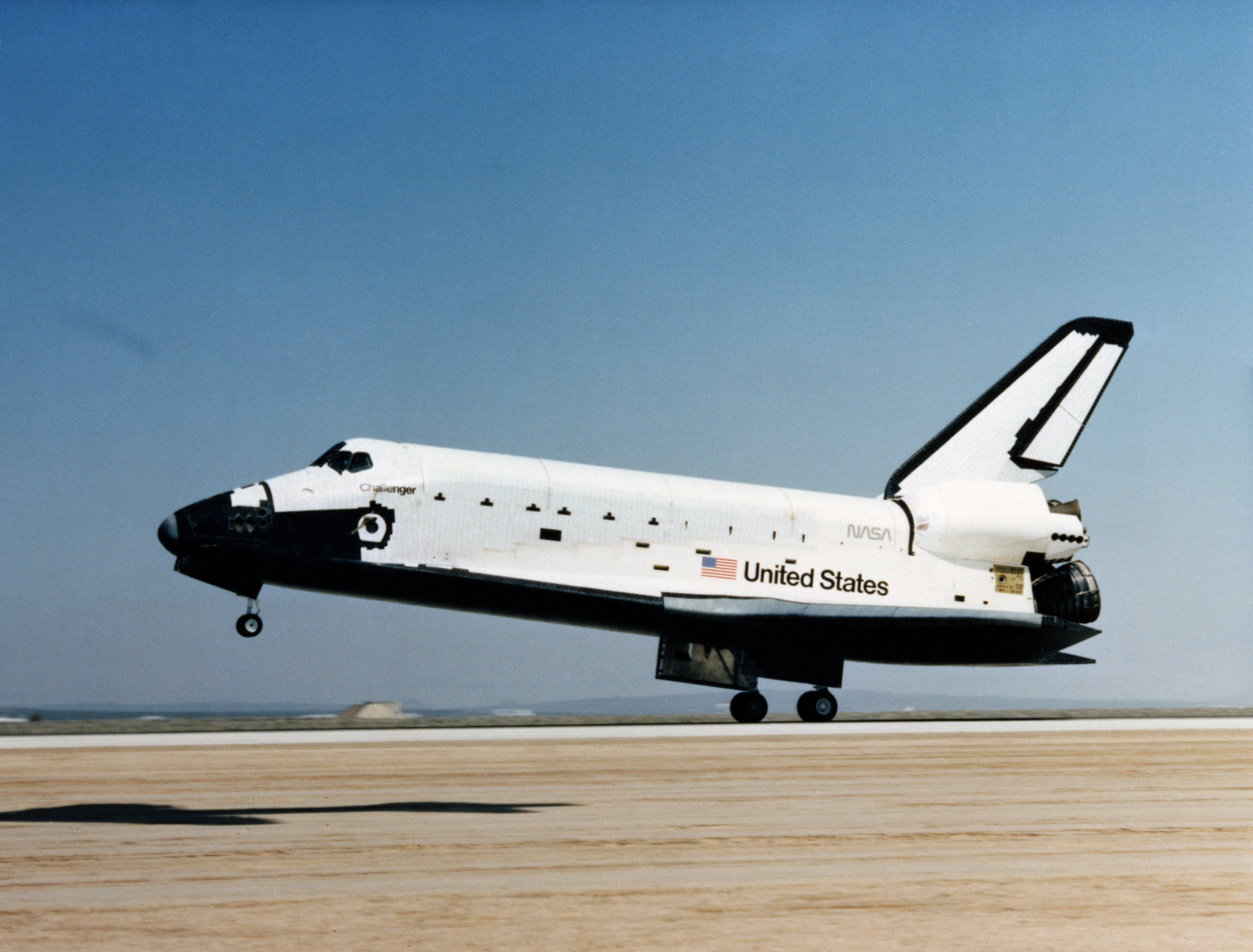 The title says it all. She landed at Edwards Air Force Base on April 9th, 1983. The ill-fated Orbiter completed the first of her 10 flights, which as we all know, culminated in her destruction on January 28th, 1986, during the launch of STS-51-L, the 25th Space Shuttle Mission, killing her brave crew of seven.